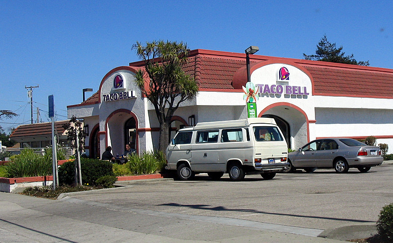 A typical Taco Bell fast food restaurant in Santa Cruz, California on California State Route 1. Photographed by user Coolcaesar on August 30, en:2005.